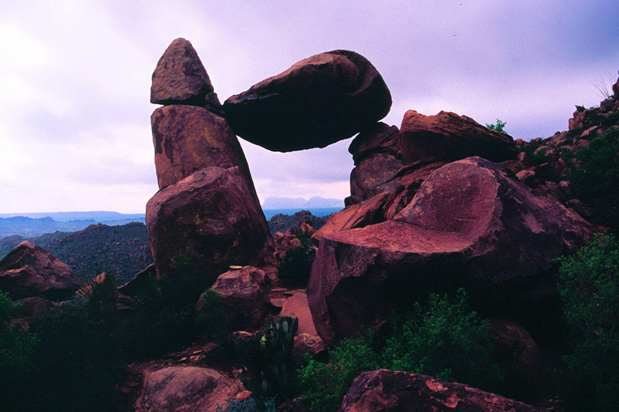 In the Grapevine Hills in Big Bend National Park